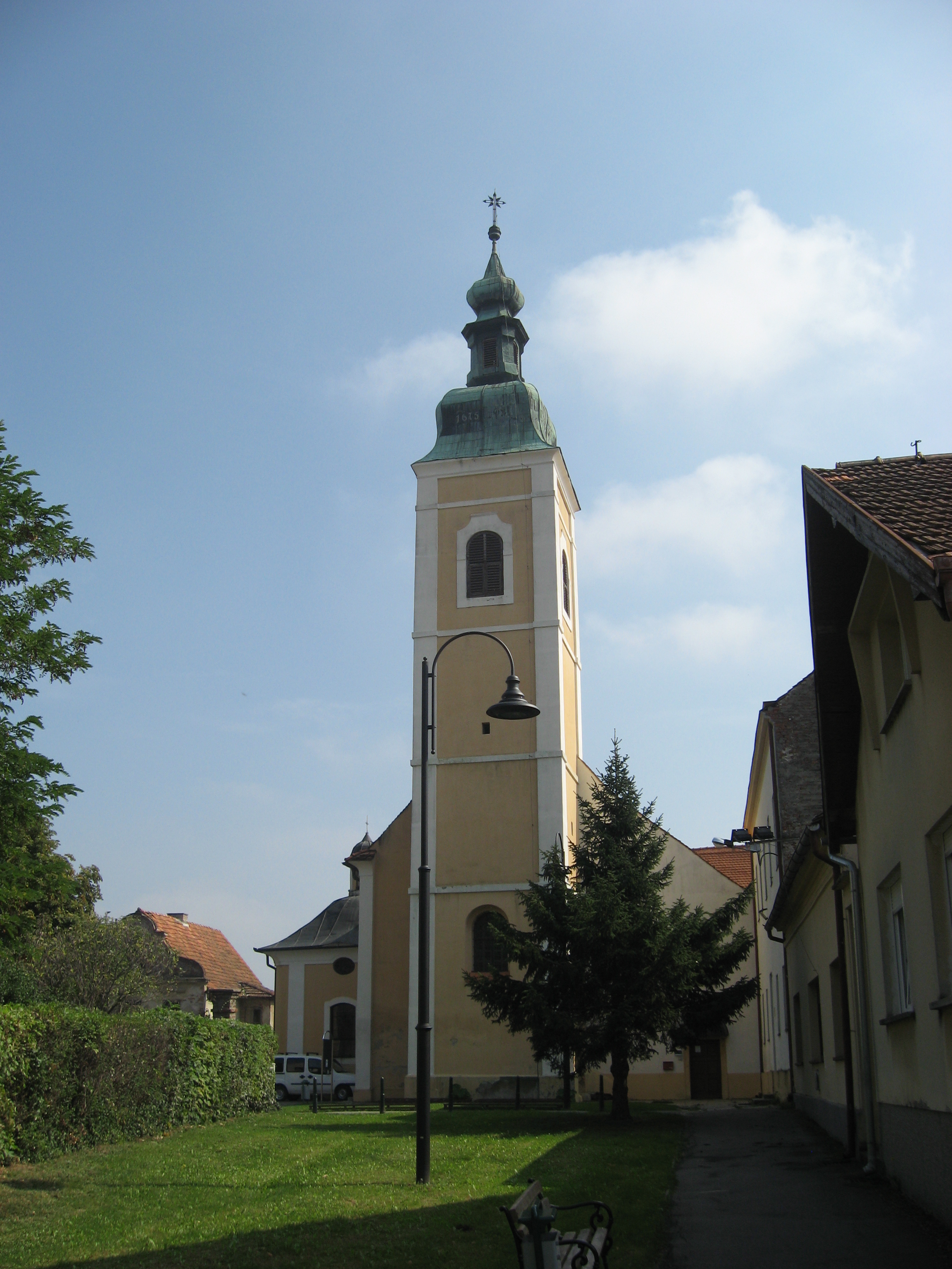 Monastery of St Antony of Padua in Koprivnica (Croatia)